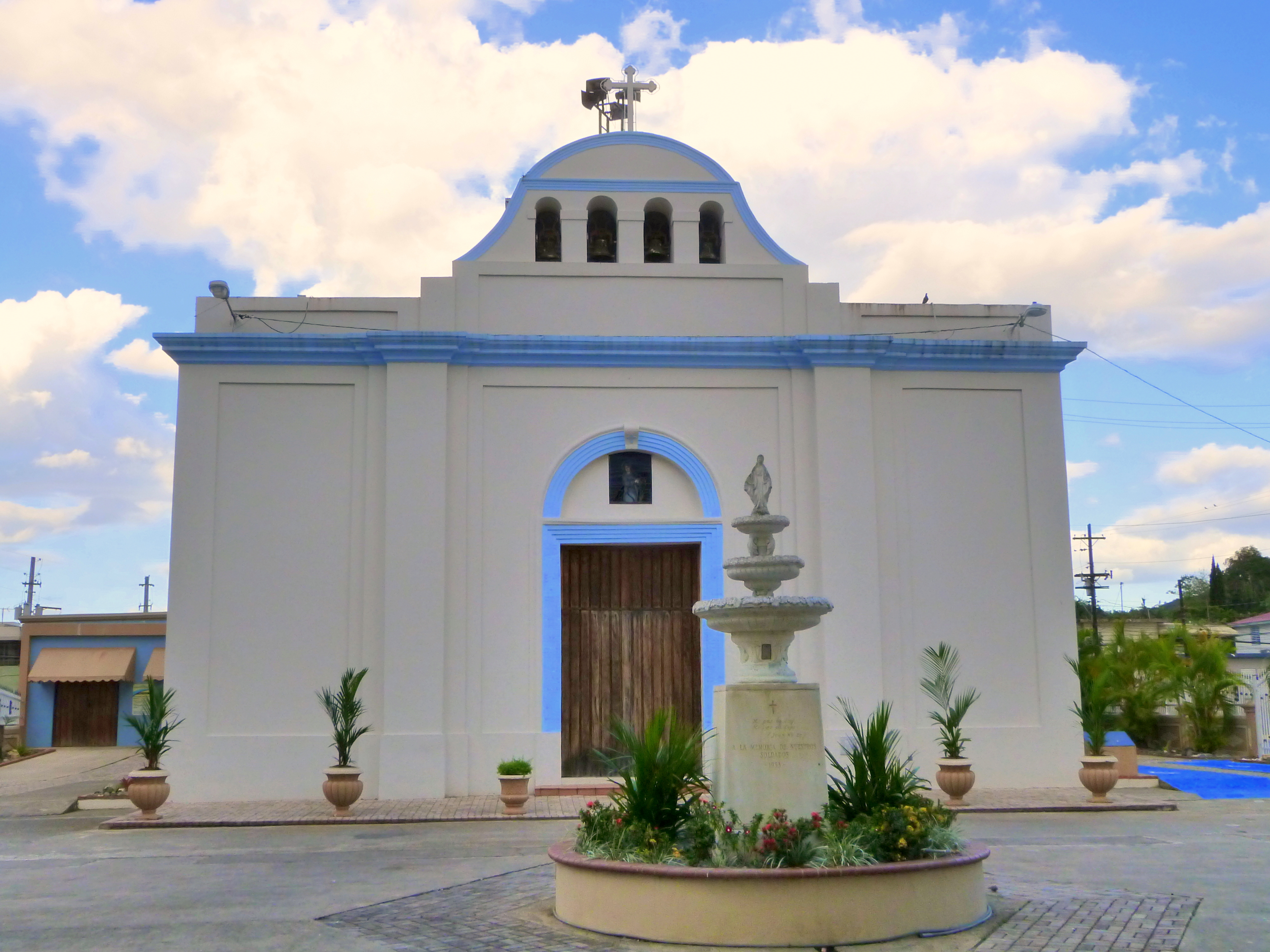 The historic Church of the Immaculate Conception (built prior to 1831), located on the town plaza in Vega Alta, Puerto Rico, is listed on the U.S. National Register of Historic Places.